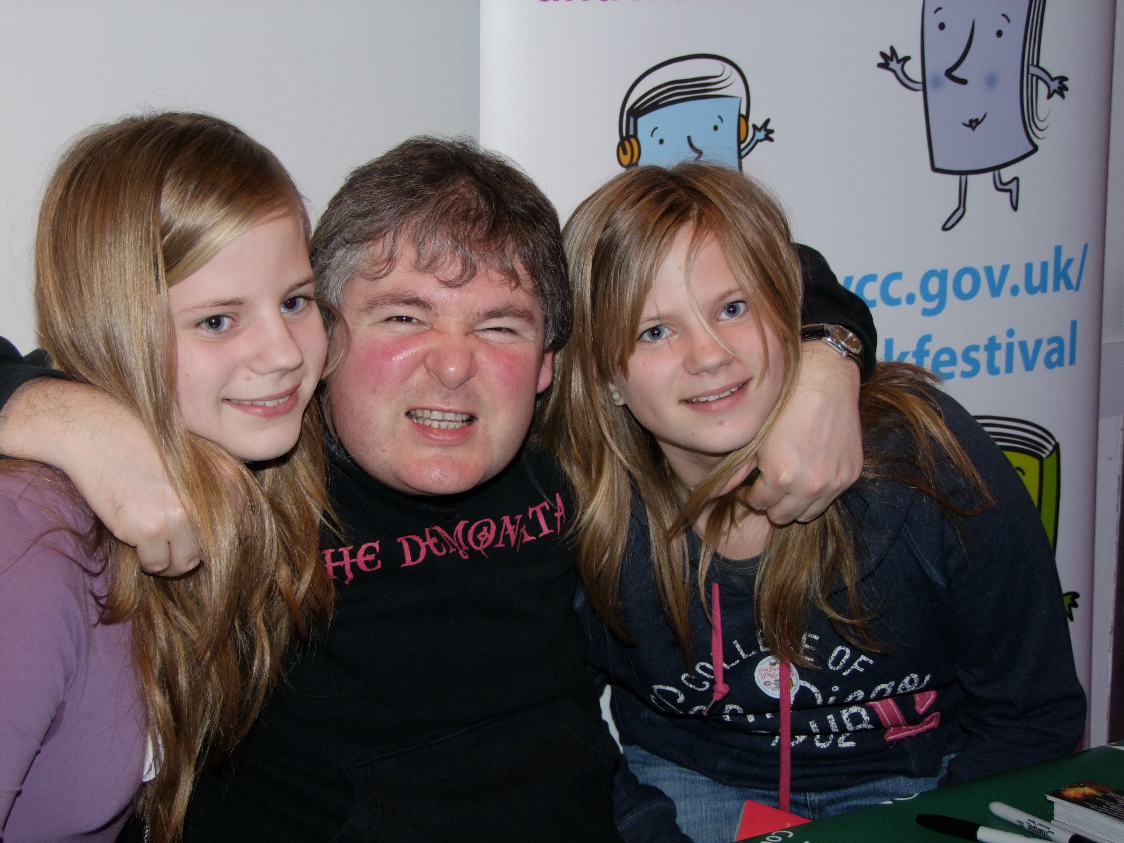 Darren Shan with Swedish fans at the 2011 Surrey Libraries' Children's Book Festival.